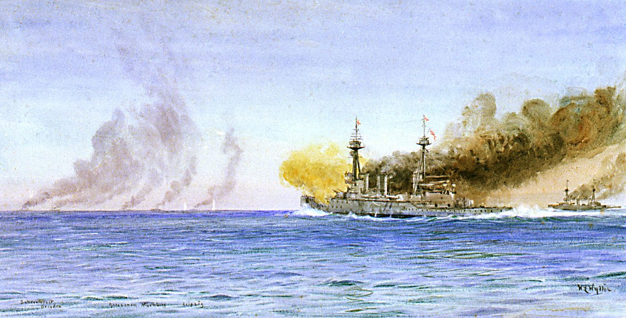 'Falkland Islands'. Signed by artist.; On loan to an Admiral 1974-75. ObjectId: PAF2120.